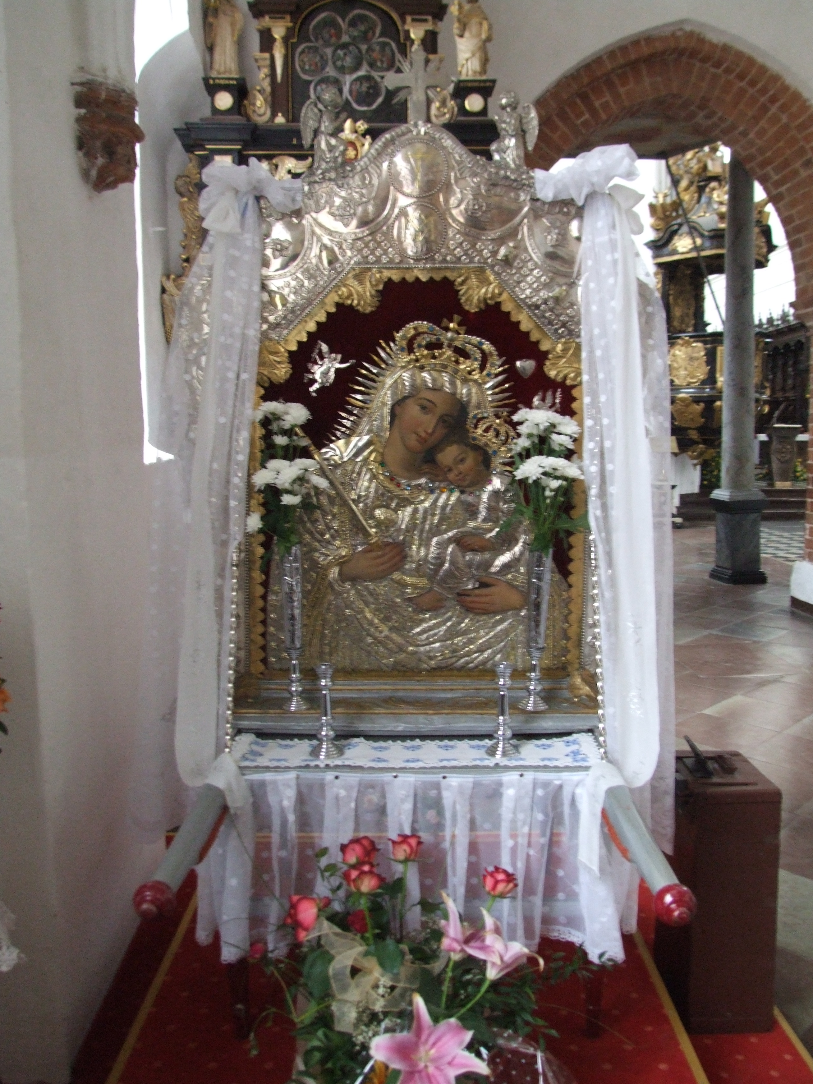 Cathedral in Gdańsk-Oliwa, Poland